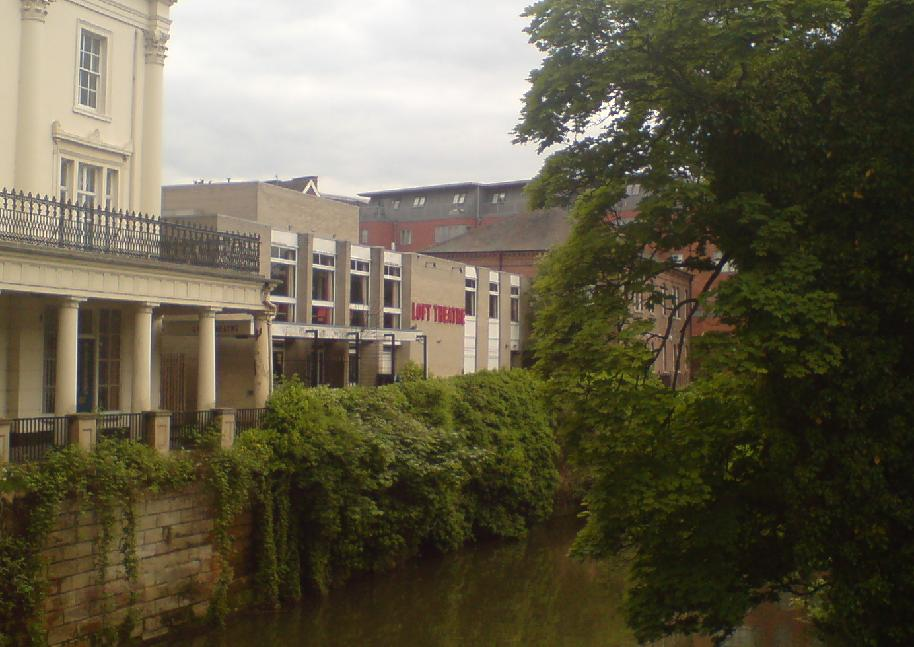 A photo of The Loft Theatre, Leamington Spa, England